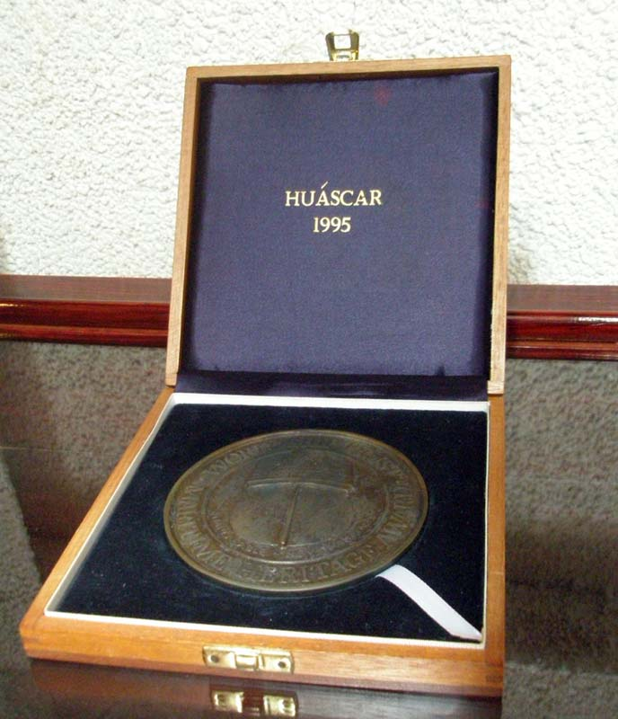 Medal of the World Ship Trust Maritime Heritage (1995, Monitor Huáscar)